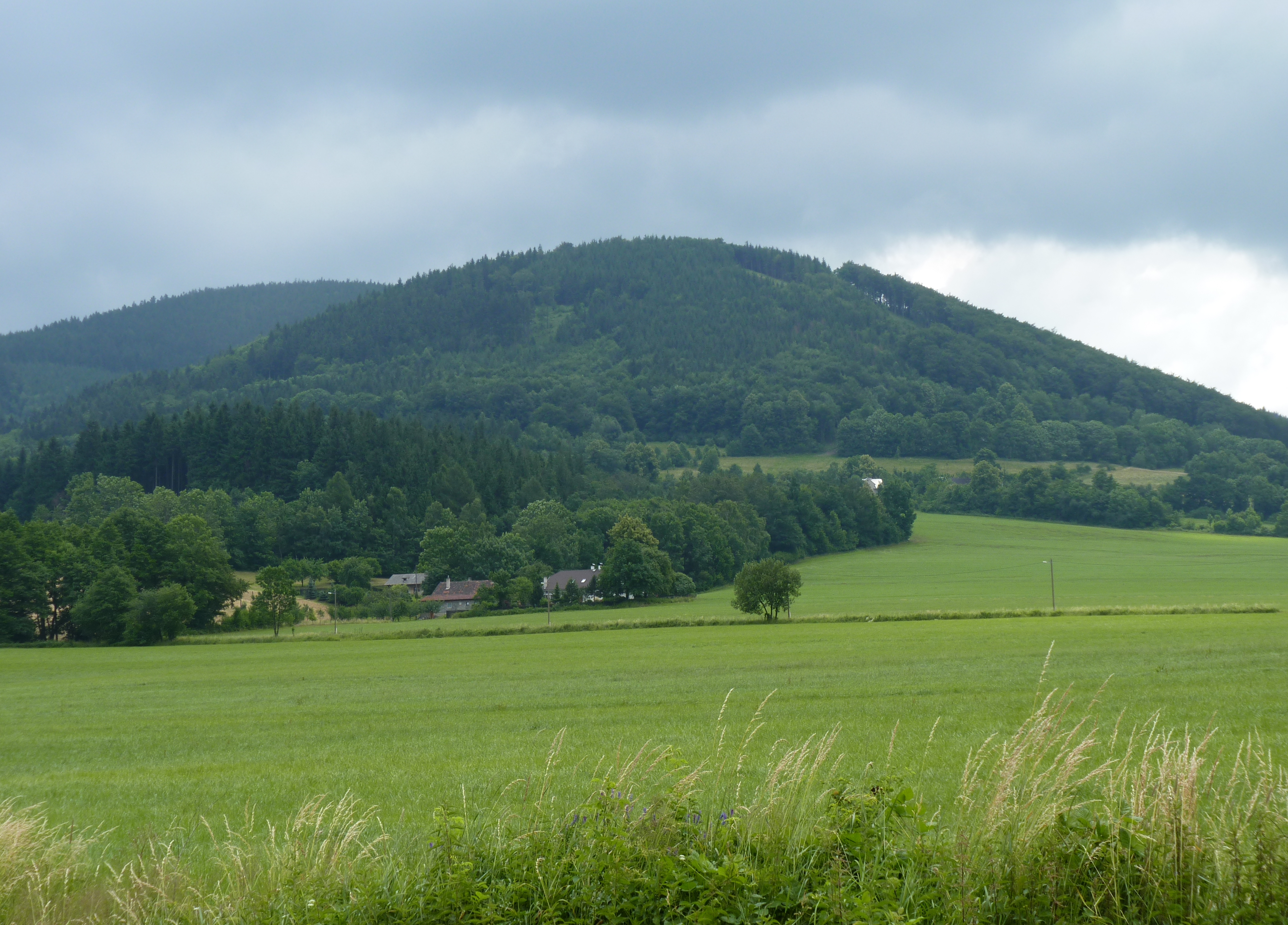 Vyšní Lhoty. Frýdek-Místek District, Moravian-Silesian Region, Czech Republic